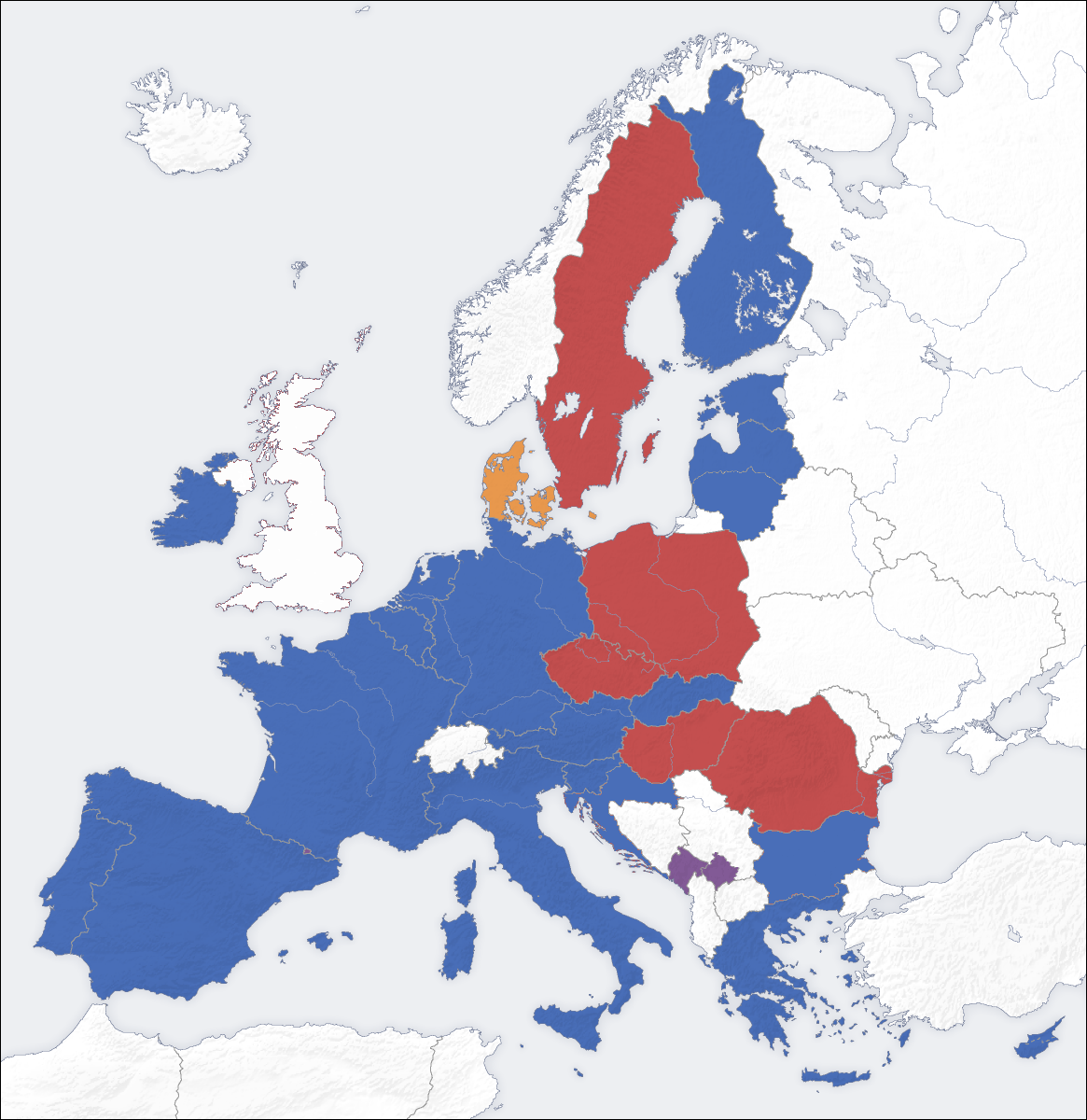 Economic and Monetary Union, map